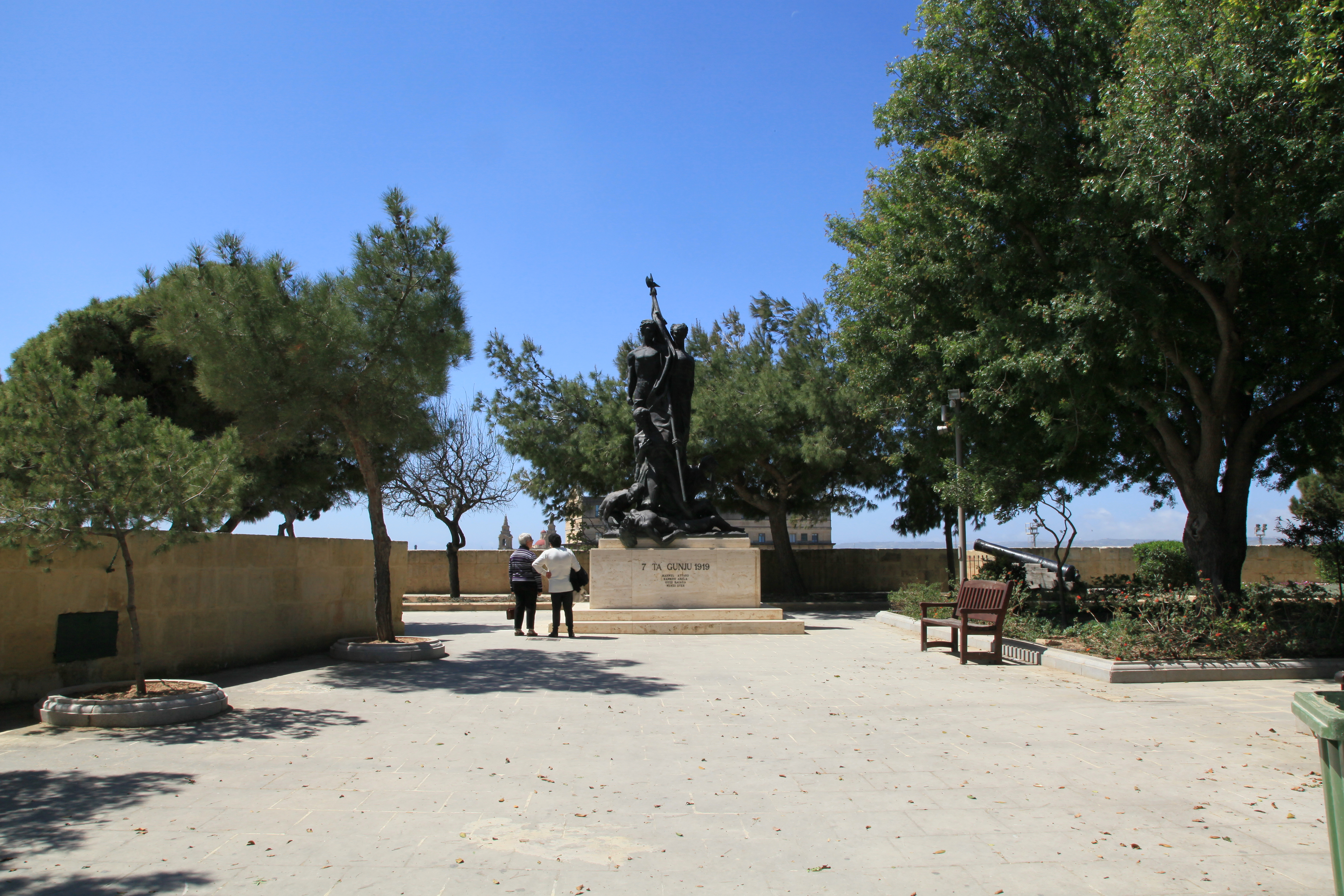 Sette Giugno monument, Hastings Gardens, Triq il-Papa Piju V in Valletta, Malta